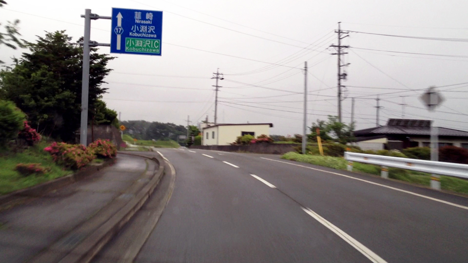 The Nagano Prefectural Road Route 17 in Sakai, Fujimi Town